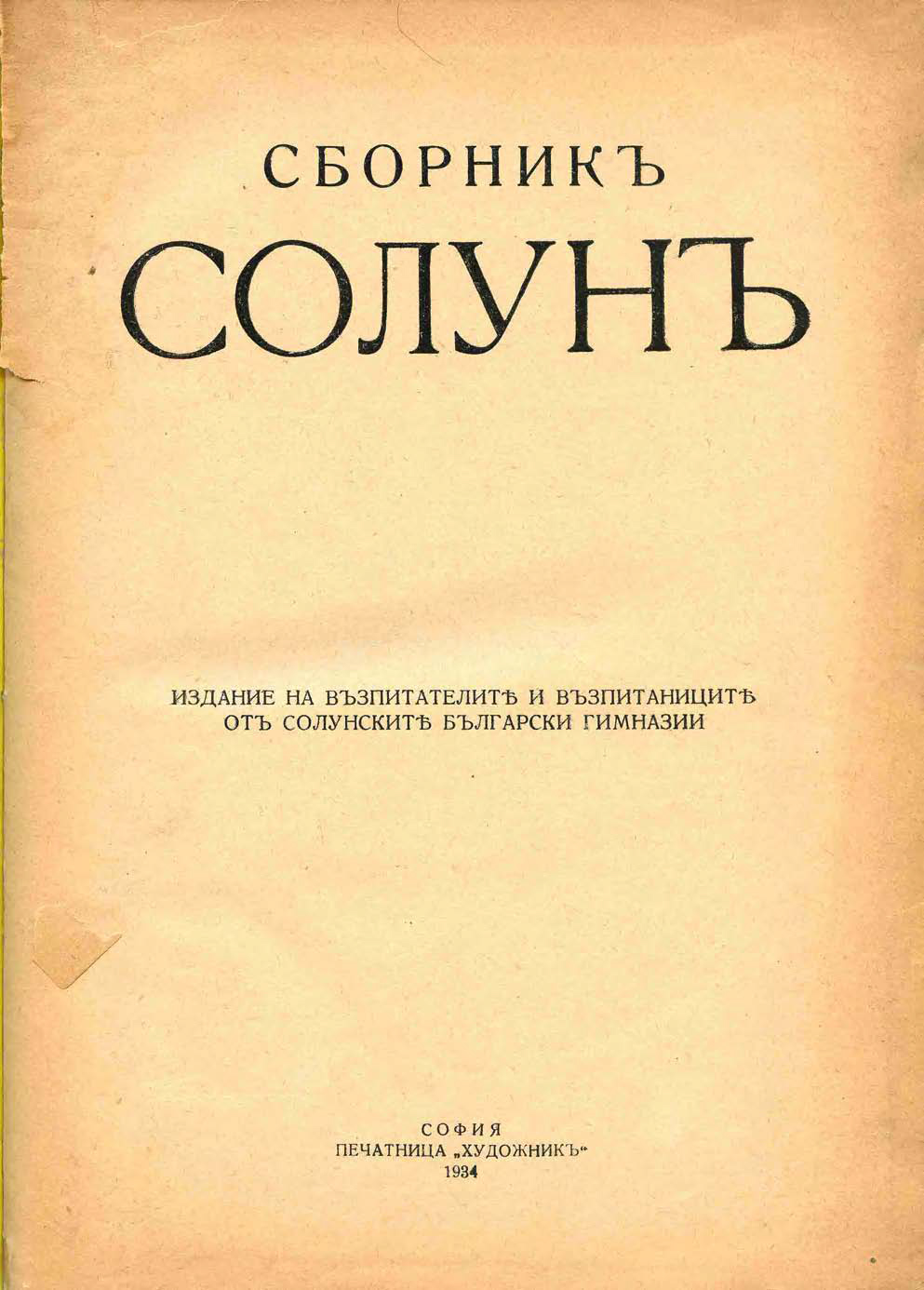 Sbornik Solun frontpage